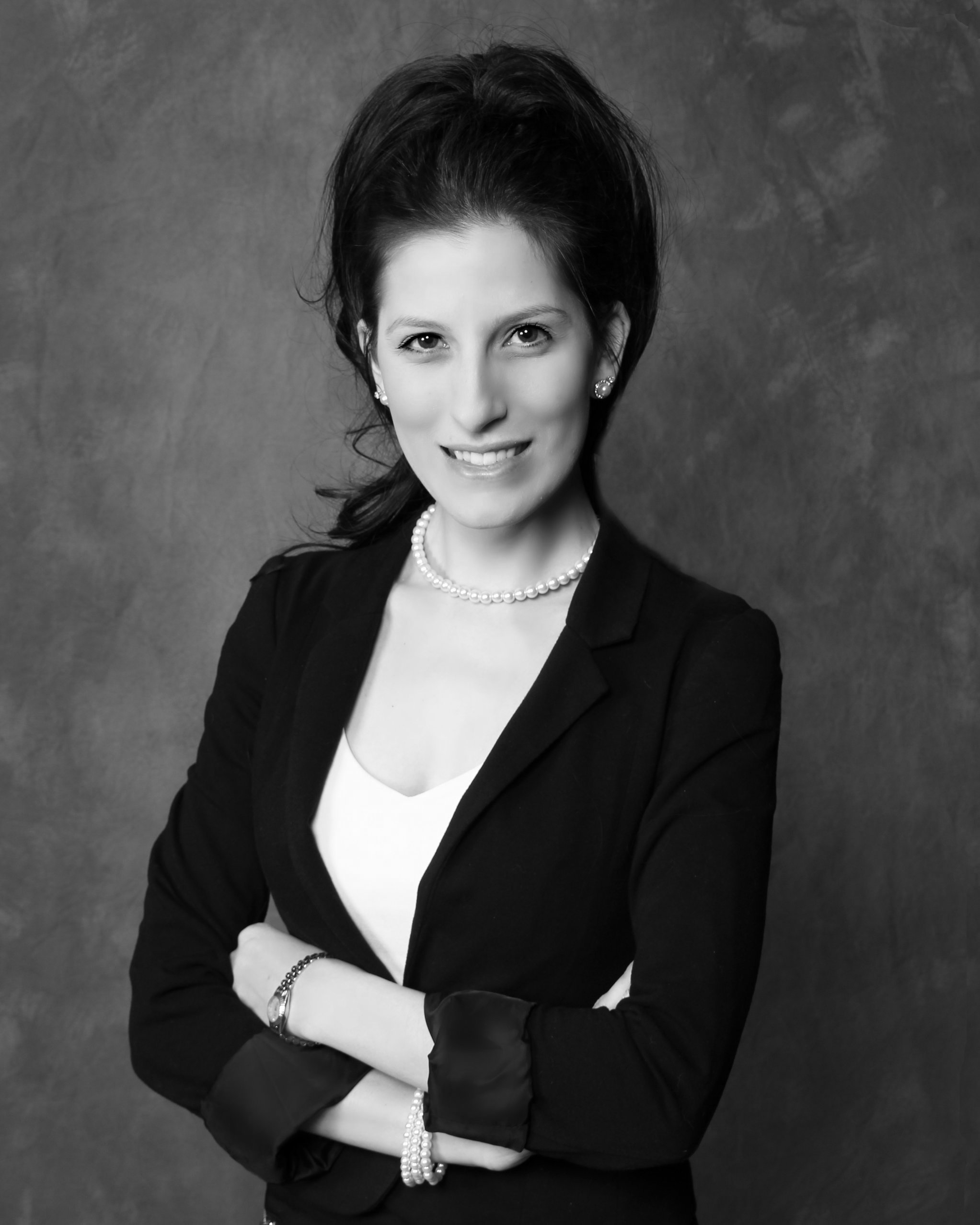 Marie K. Sarantakis at the Lake County Bar Association